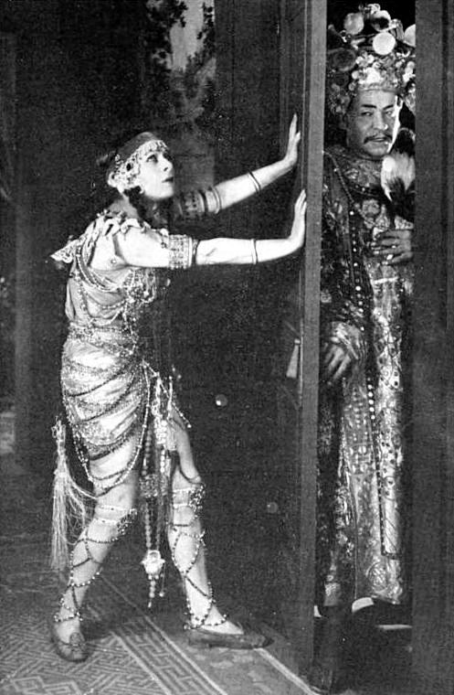 Still from the American film The Red Lantern (1919) with Alla Nazimova and Noah Beery, at an insert at page 172 of the Macaulay edition of the book by Edith Wherry.